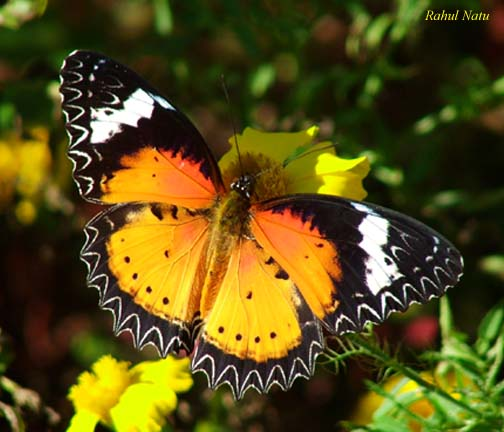 The image shows a Leopard Lacewing Cethosia cyane butterfly of Family Nymphalidae shot by Rahul Natu in Namdapha National Park, Arunachal Pradesh on 19 Nov 2005. The image is created by and is the contribution to Wikimedia commons of Rahul Natu for use in Indian butterflies project in wikipedia. Uploaded by User:Nature Loader with specific permission of Rahul Natu. Nature Loader 10:23, 12 April 2006 (UTC)